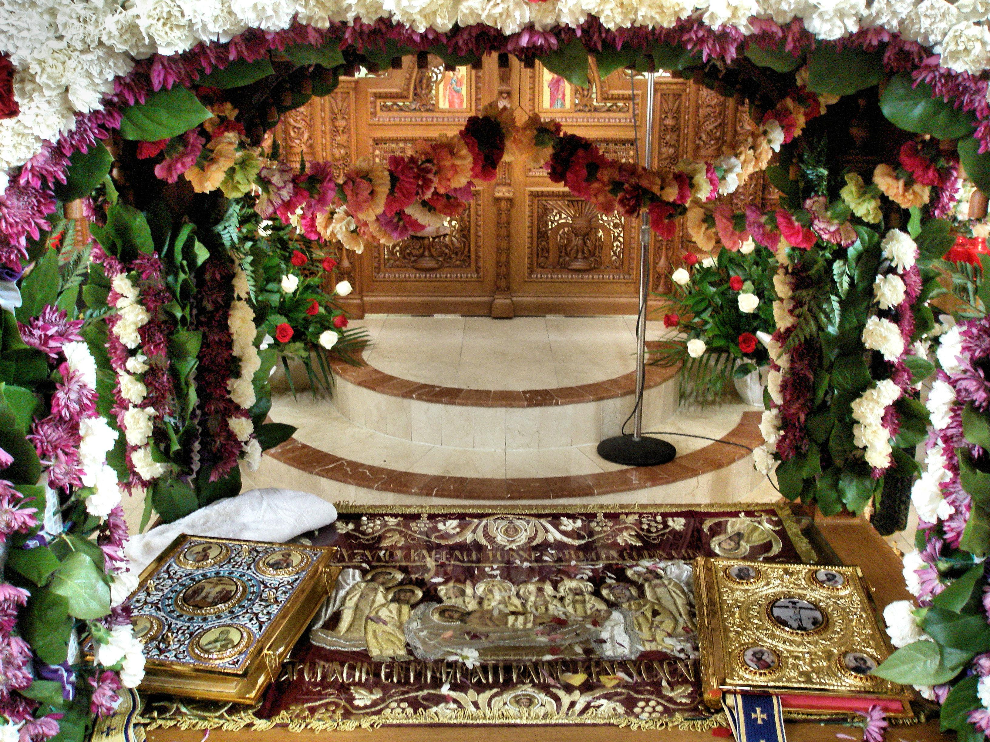 The Epitaphios (embroidered icon of Jesus Christ in the Tomb), placed in the Sepulcher (a bier symbolizing the Tomb of Christ), and set for veneration by the Orthodox faithful. From the Vespers of Good Friday afternoon (The Apokathylosis Service), 2008. Annunciation of the Virgin Mary Greek Orthodox Cathedral, Toronto, Ontario, Canada.